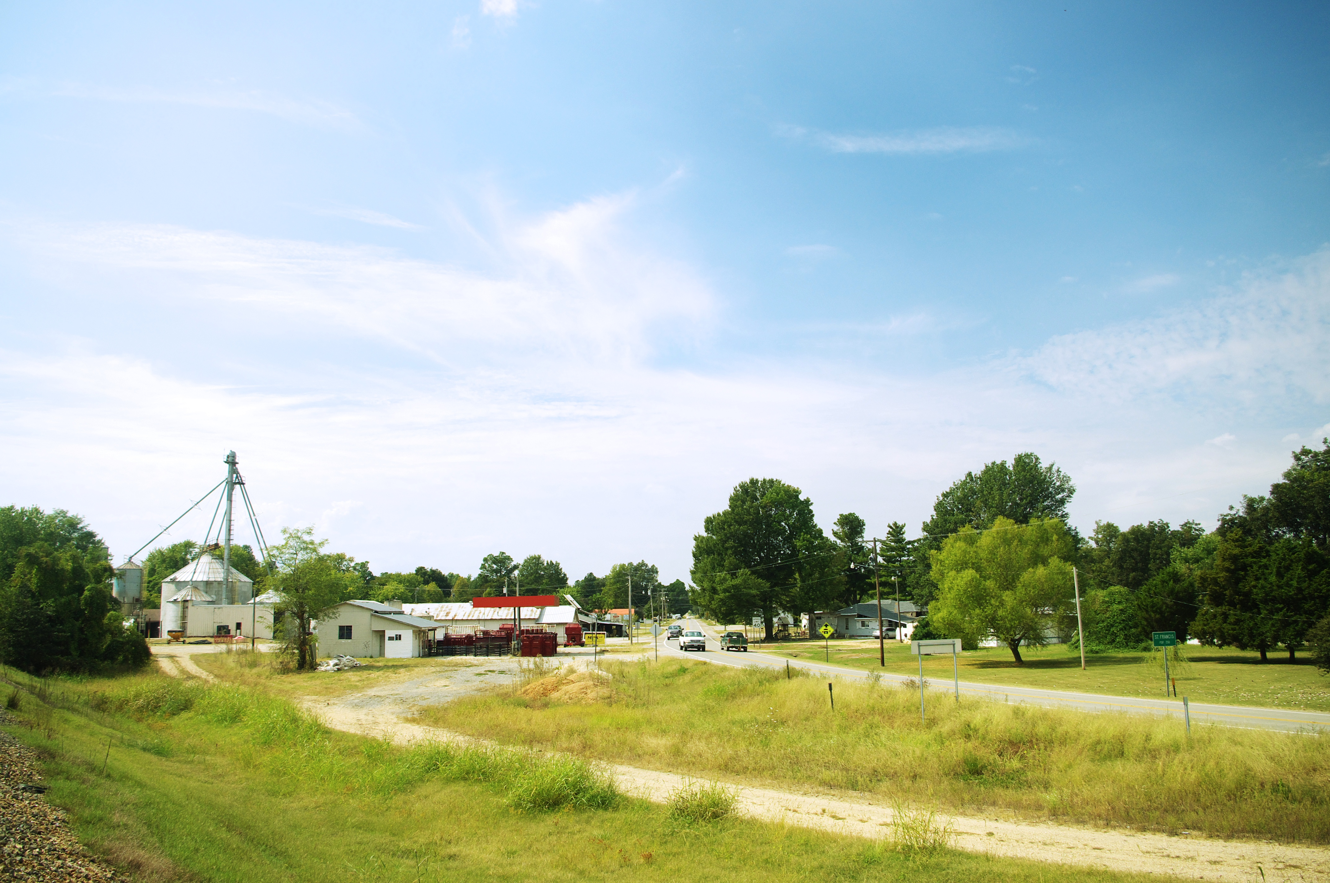 Buildings along U.S. Route 62 in St. Francis, Arkansas, United States.